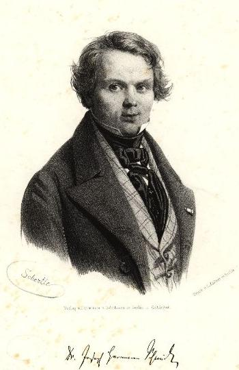 Joseph Hermann Schmidt (1804-1852), was professor of Obstetrics in Berlin (litography)